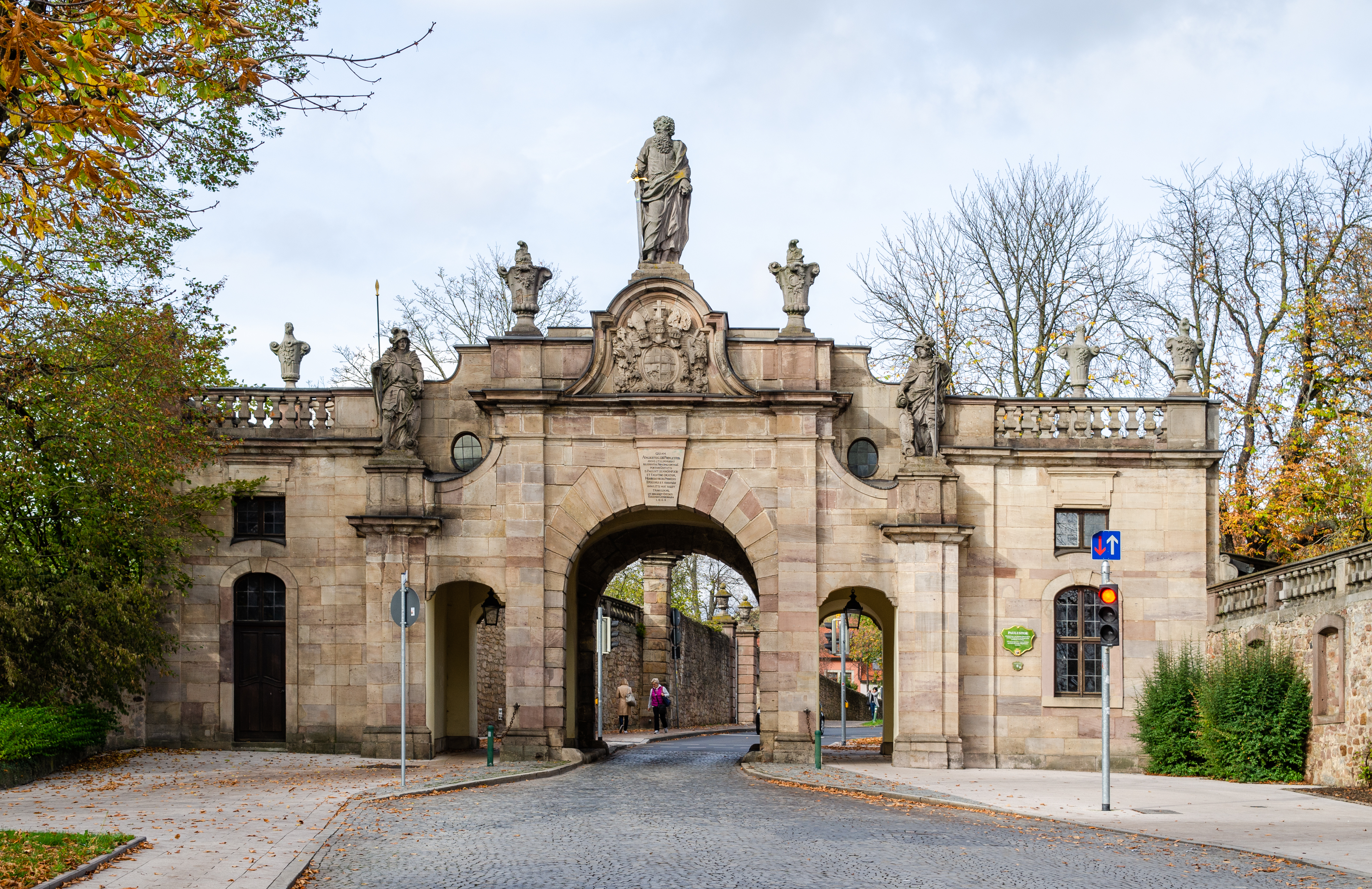 Fulda (Hesse, Germany) – St. Paul's Gate – south side